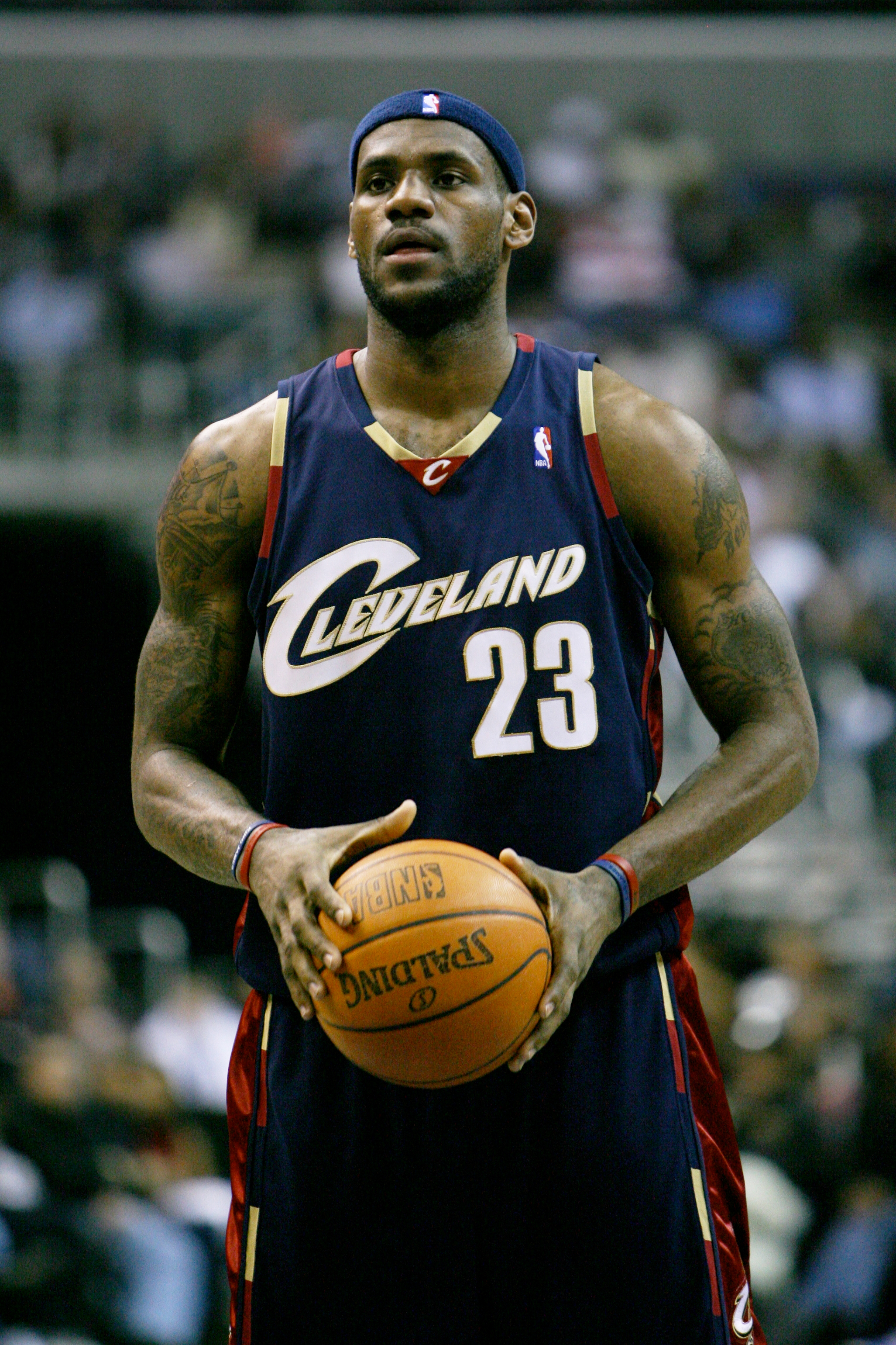 LeBron James playing with the Cleveland Cavaliers